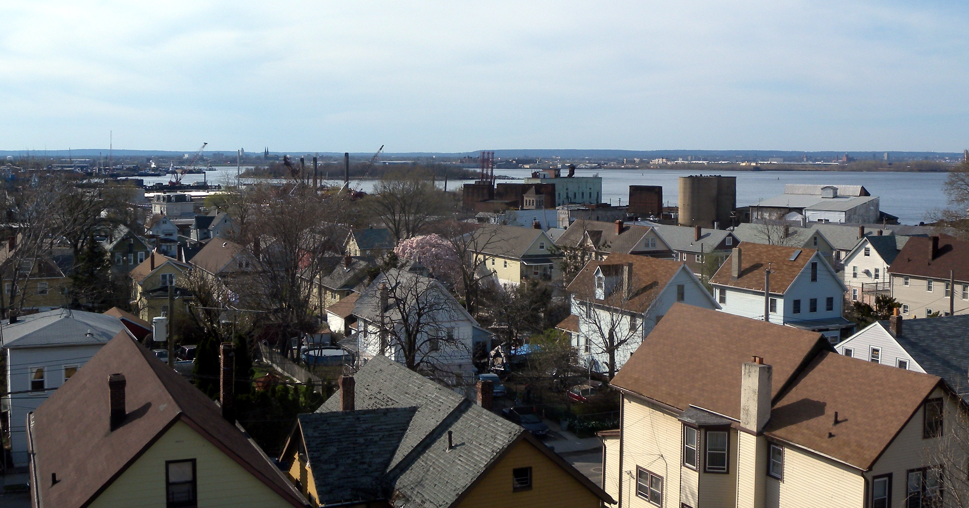 Looking northwest from Bayonne Bridge at Mariner's Harbor on a sunny early afternoon with Shooters Island (left) and Newark Bay (right) in background.